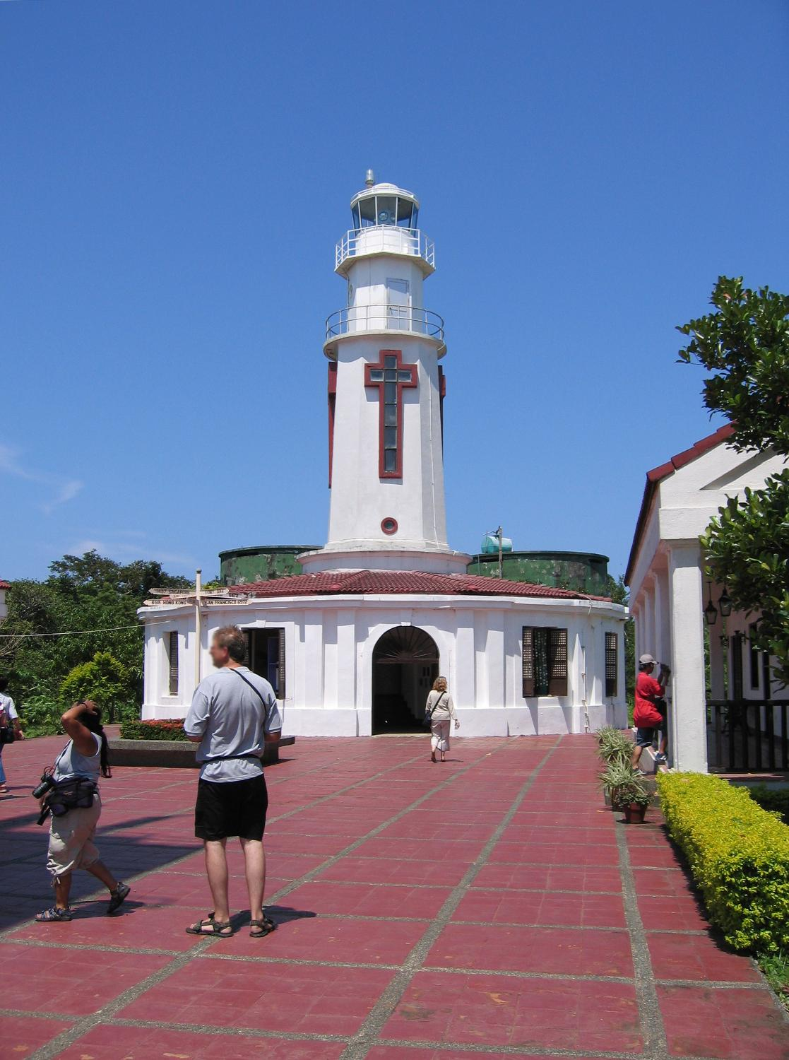 This original lighthouse, located on the highest part of Corregidor Island, at the entrance of Manila Bay, Philippines, was first built and lit in 1853, but destroyed in WWII, and this is the new lighthouse built on the same location using some of the original stones.